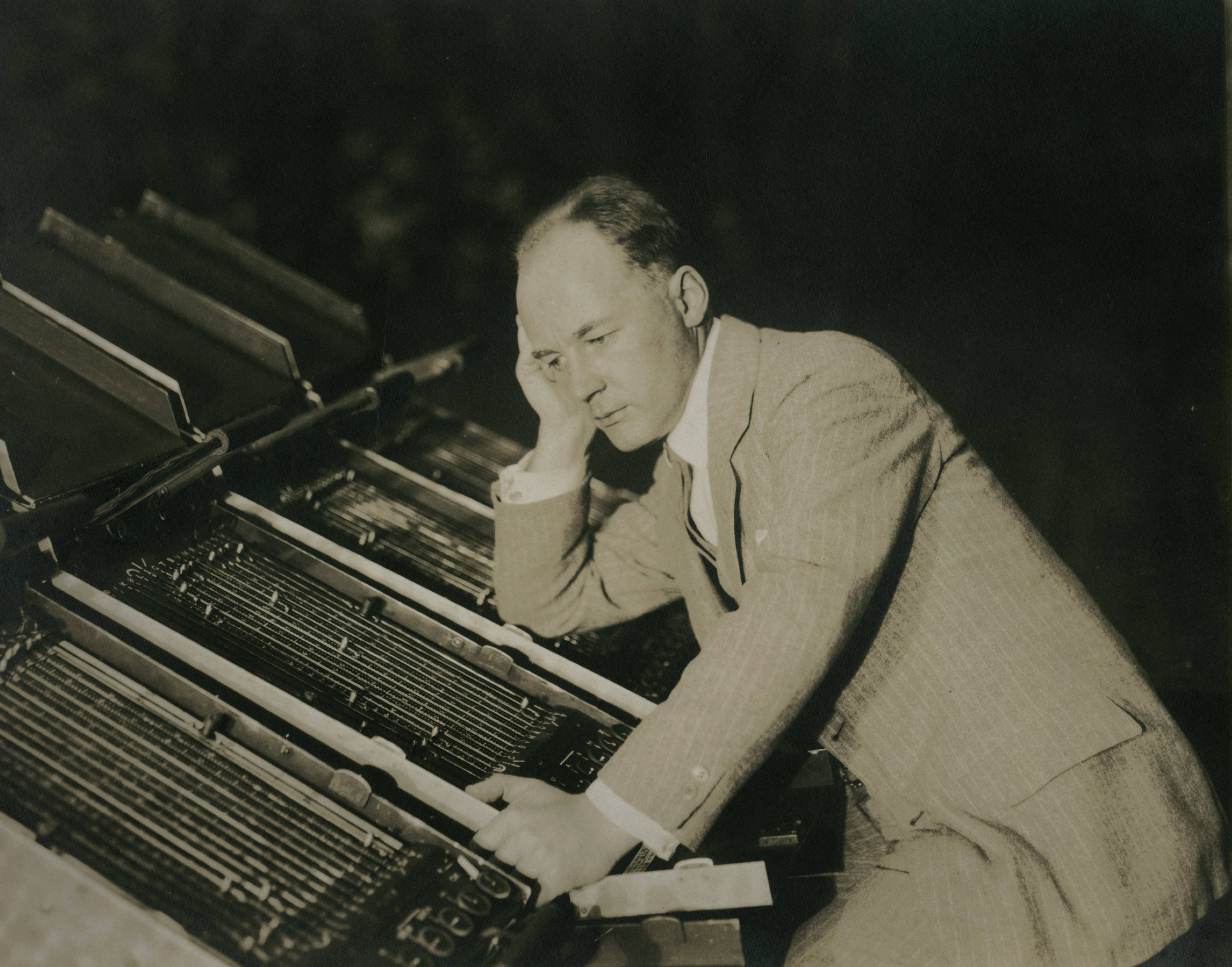 On back of photograph, " Operated with keys similar to those of a piano, this color-organ is used for projecting scenery on the sky-dome of the Goodman in its spectacular production of The Vikings, by Henrik Ibsen